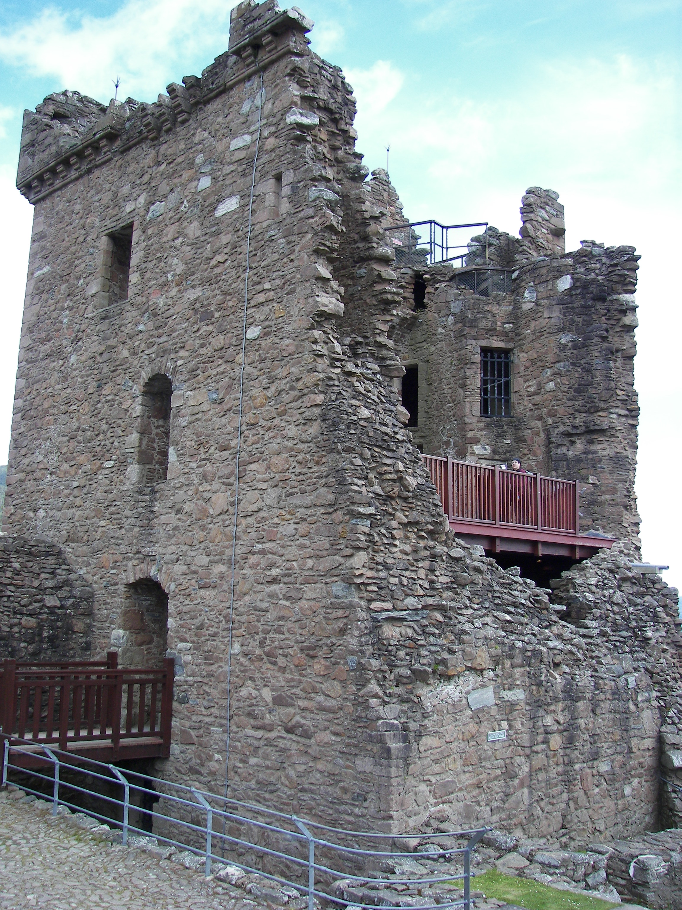 Tower House of Urquhart Castle.